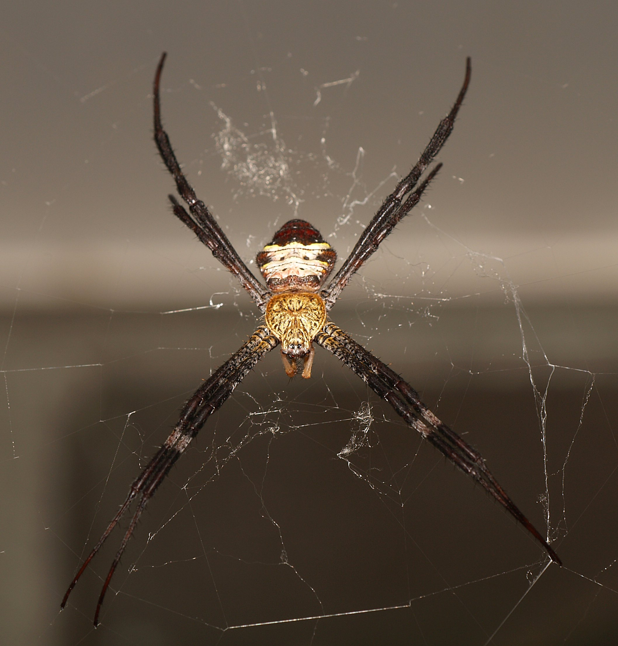 Argiope pulchella female, from Cologne Zoo, Germany.